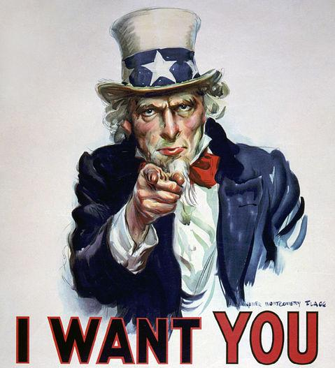 It is made editing the PD image Image:Unclesamwantyou.jpg